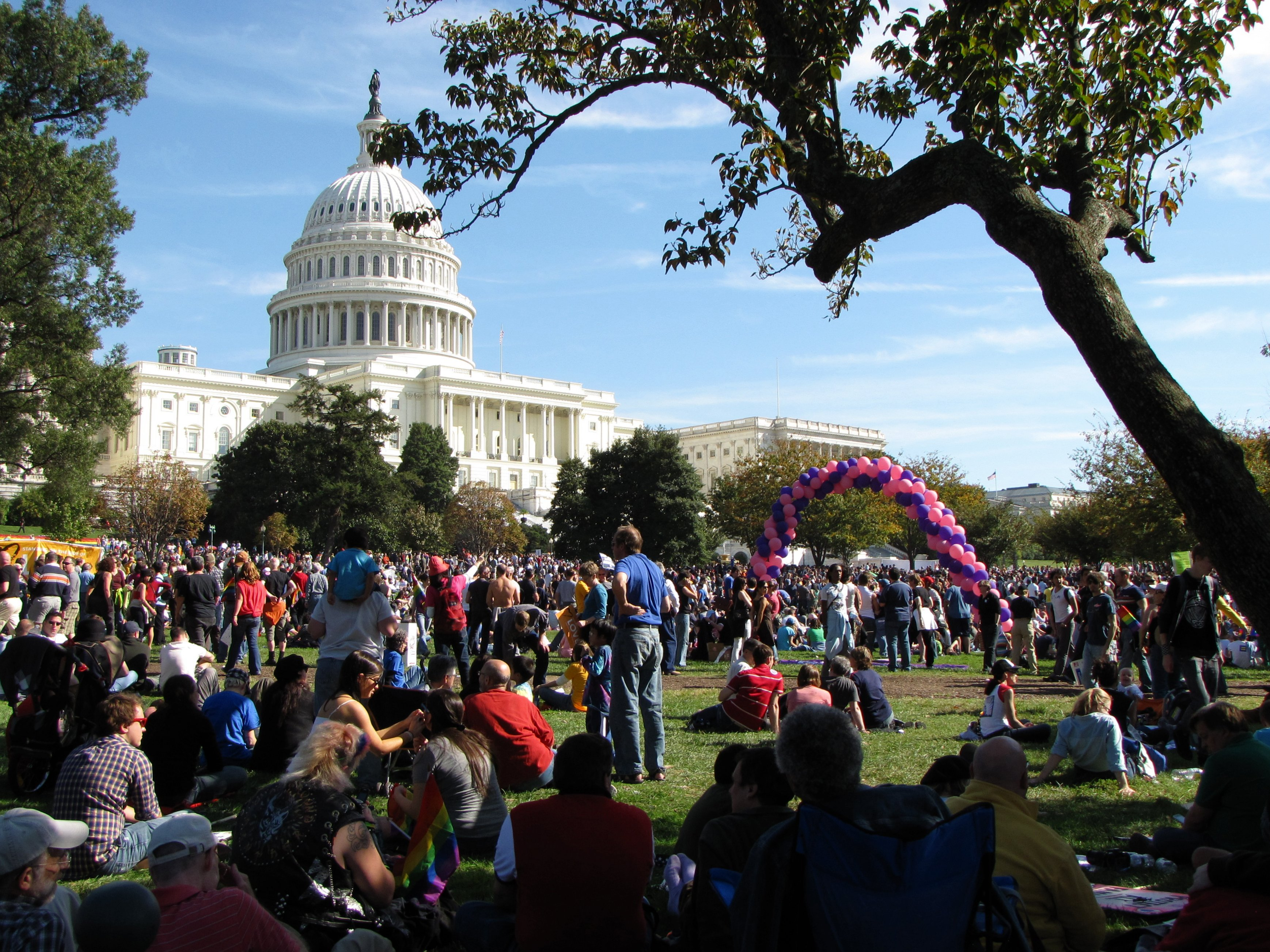 Participants on the west lawn of the US Capitol at the end of the National Equality March.